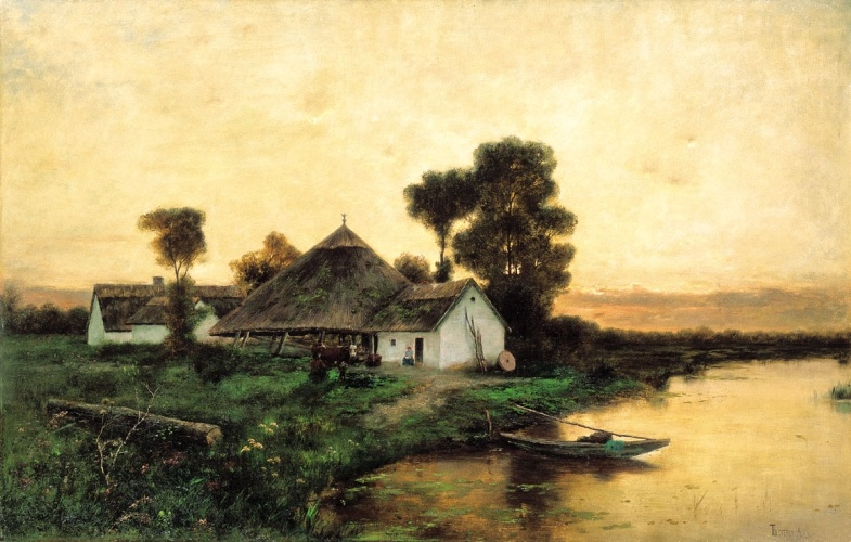 Mill on the river bank